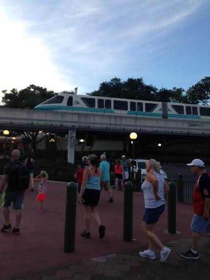 The Disney World Monorail during my May 2015 visit